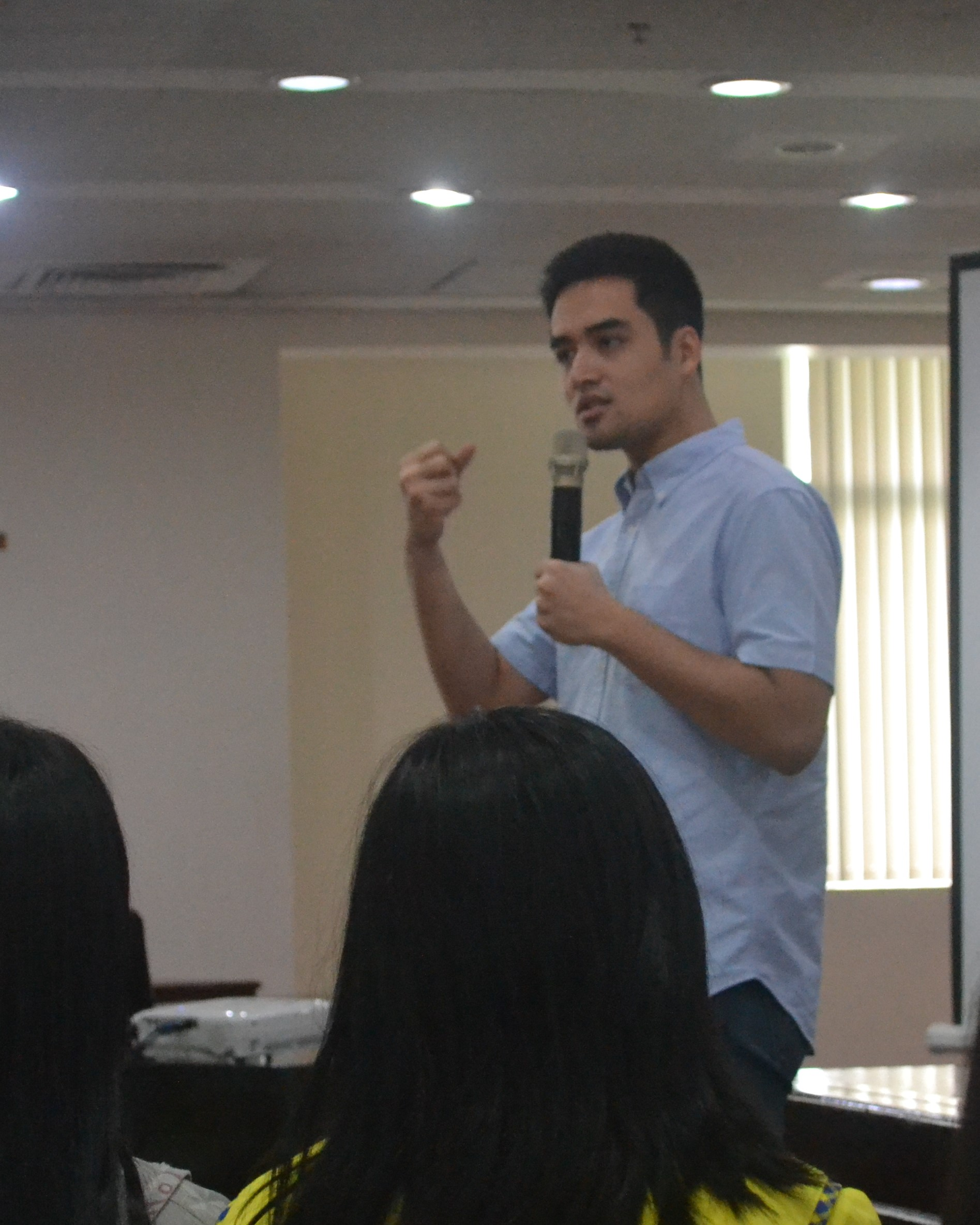 Pasig City, Philippines Mayor Vico Sotto speaking in front of High School students at meeting organized by the UA&P Center for Research and Communication on June 6, 2019